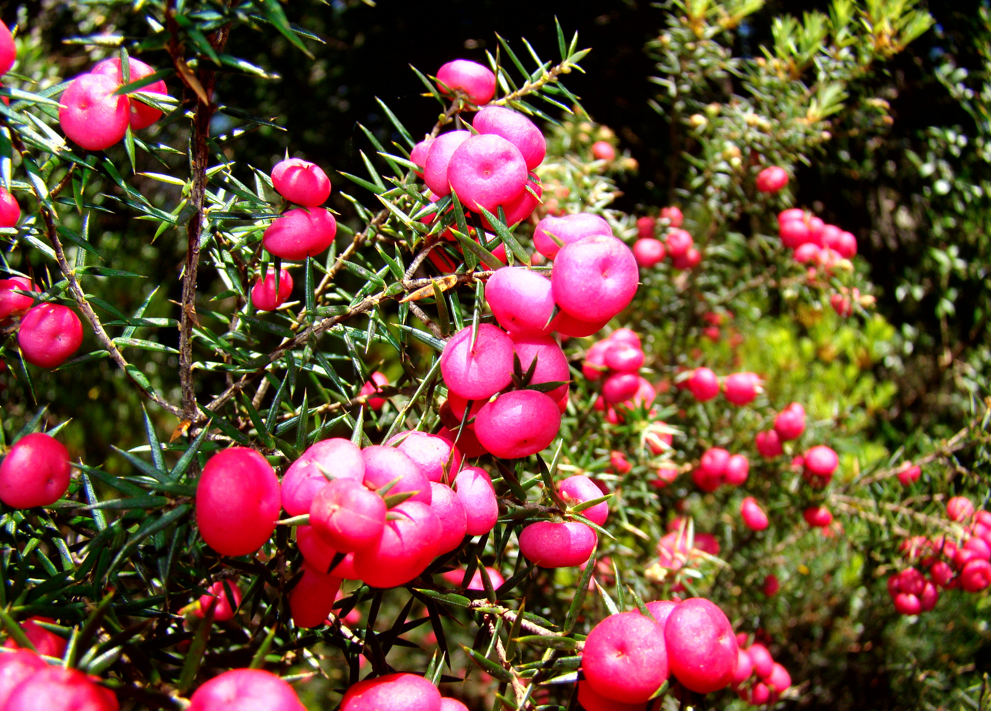 Pink mountain berries by the Overland Track in the Tasmanian Highlands, between Frog Flats and Pelion Hut.